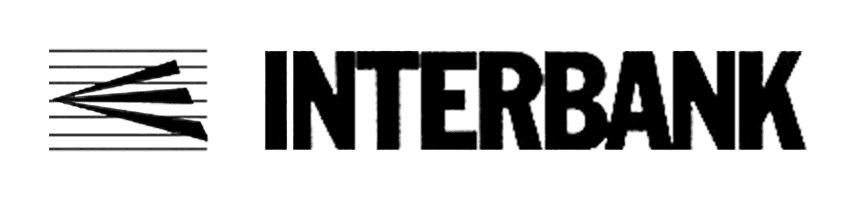 Logo of Interbank Osakepankki. It was the first bank to be established to the closed banking system in Finland. Based on a picture of a share that is dated to 14.12.1988. [1]